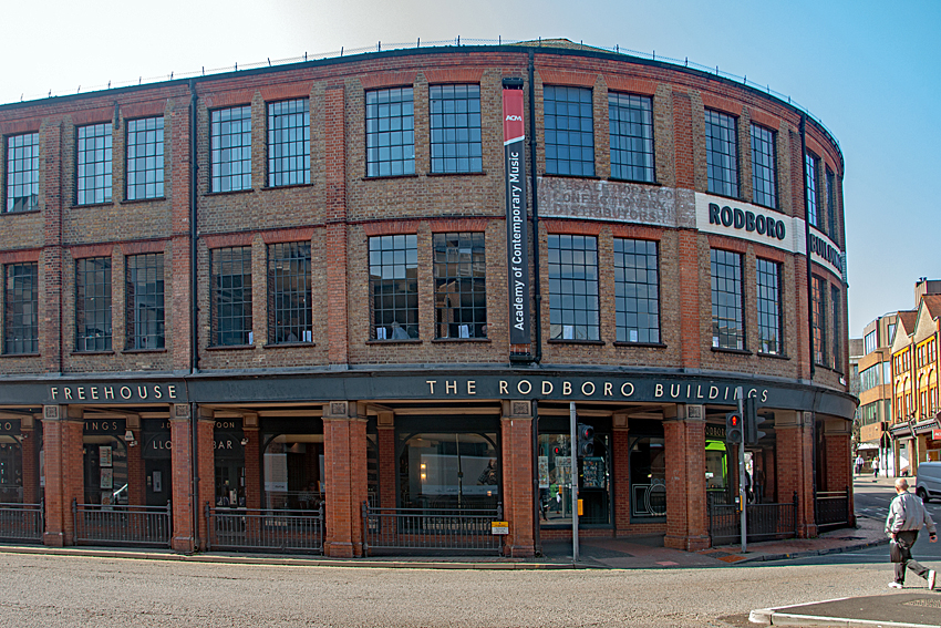 The Rodboro Buildings were the original Dennis car factory. The earliest purpose built car factory in England and the World